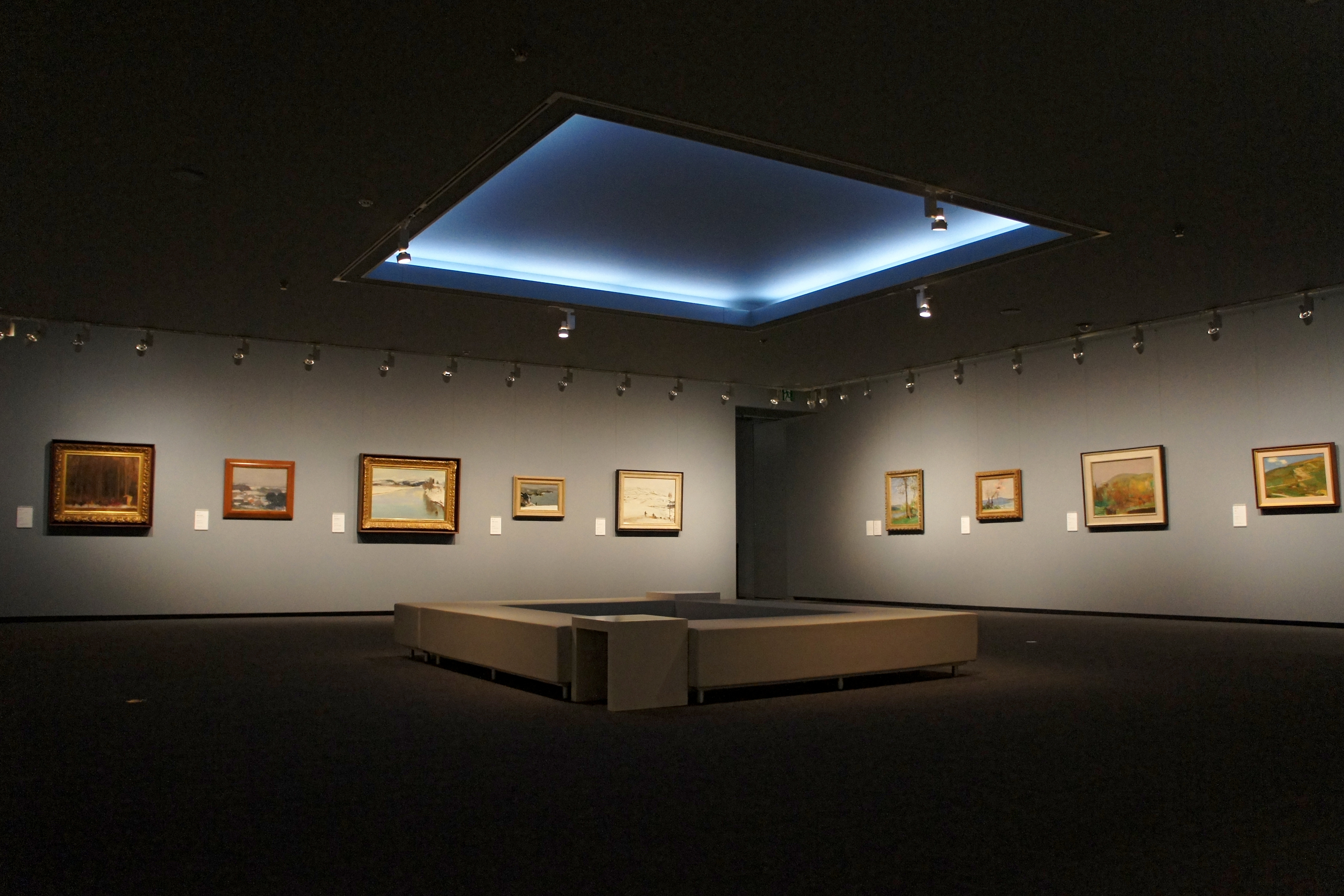 Hyogo Prefectural Museum of Art in Kobe, Hyogo prefecture, Japan